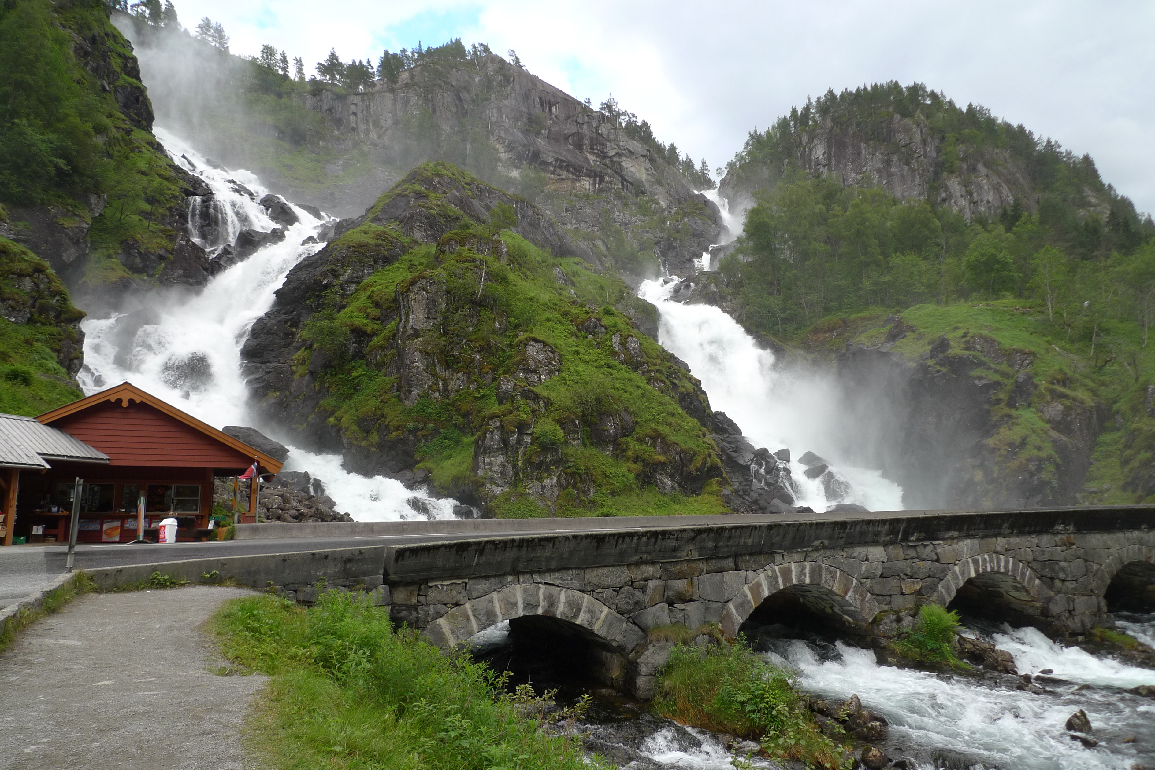 Låtefossen waterfall in Odda, Norway. Original description: Tour Hardangervidda 2011